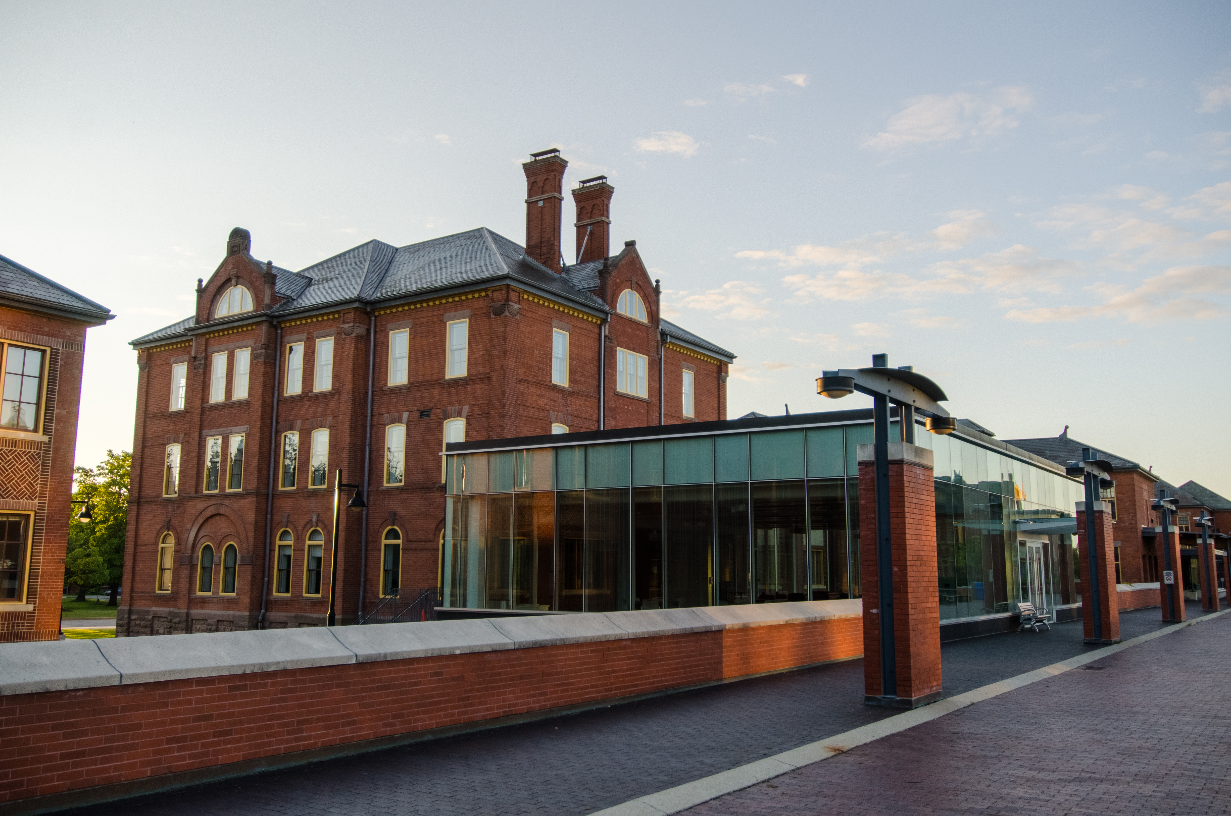 Seen in Police Academy.